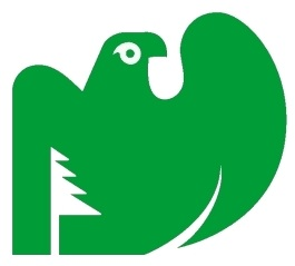 Sugito Saitama chapter